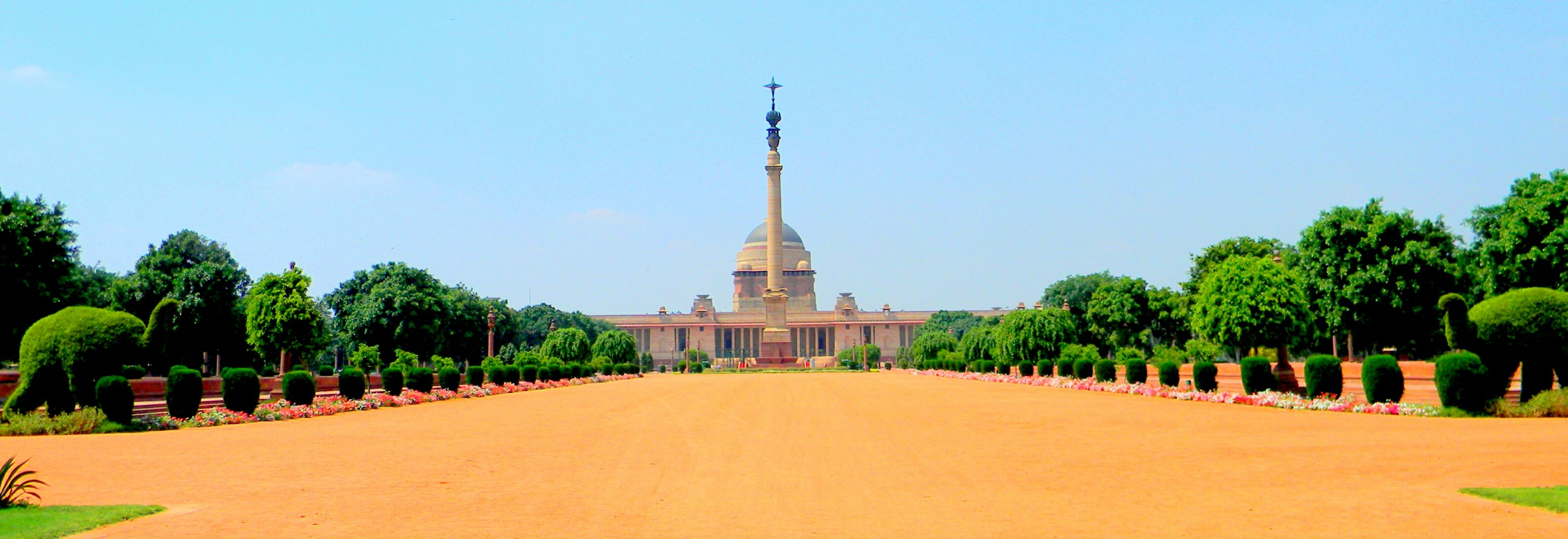 President House India